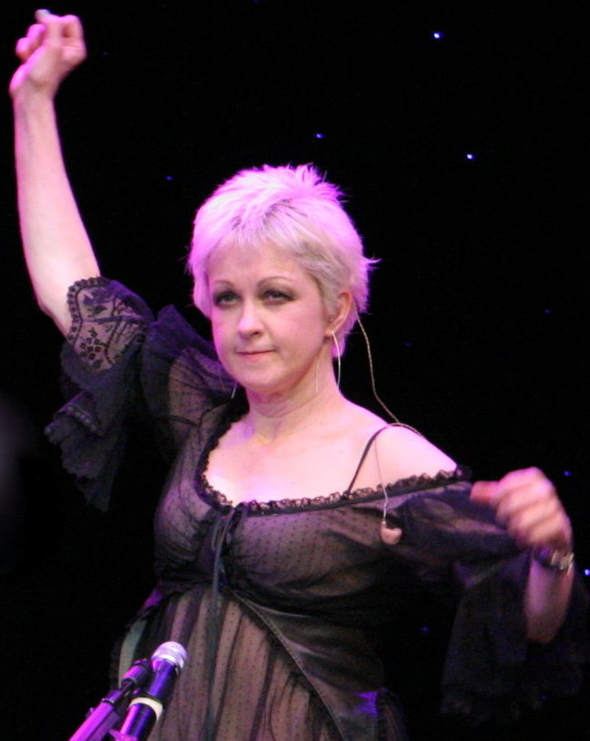 Rosie and Cindy